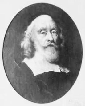 Dr. med. Paul (Poul) (von) Moth (* 1600; + 1670), personal physician of the King of Denmark and Norway, father of Sophie Amalie Moth, Countess of Samsø (* 1654; + 1719), mistress of King Christian V., and of Dr. med. Matthias Moth (* 1649; + 1719), a government official and lexicographer.